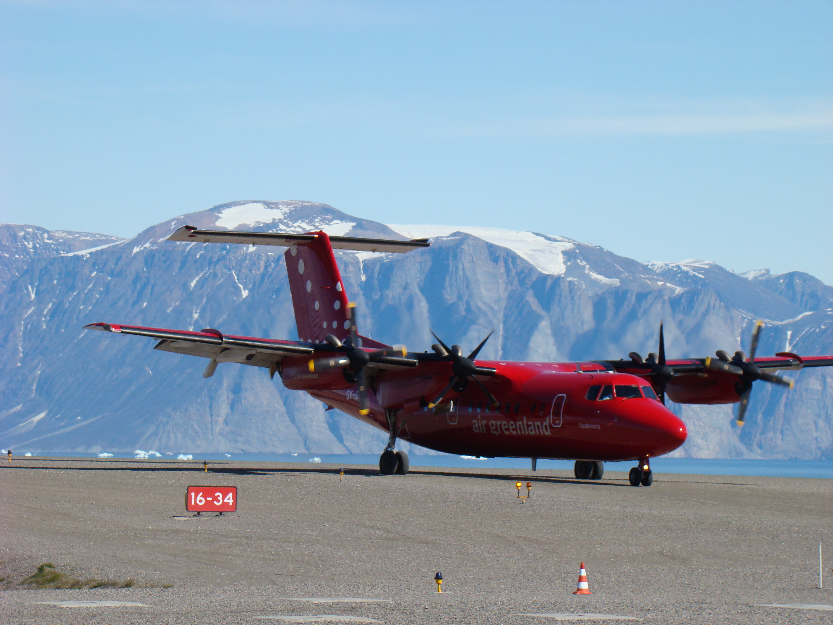 A Dash 7 aircraft by Air Greenland has just arrived at Qaarsut Airport in Greenland on June 28, 2011.